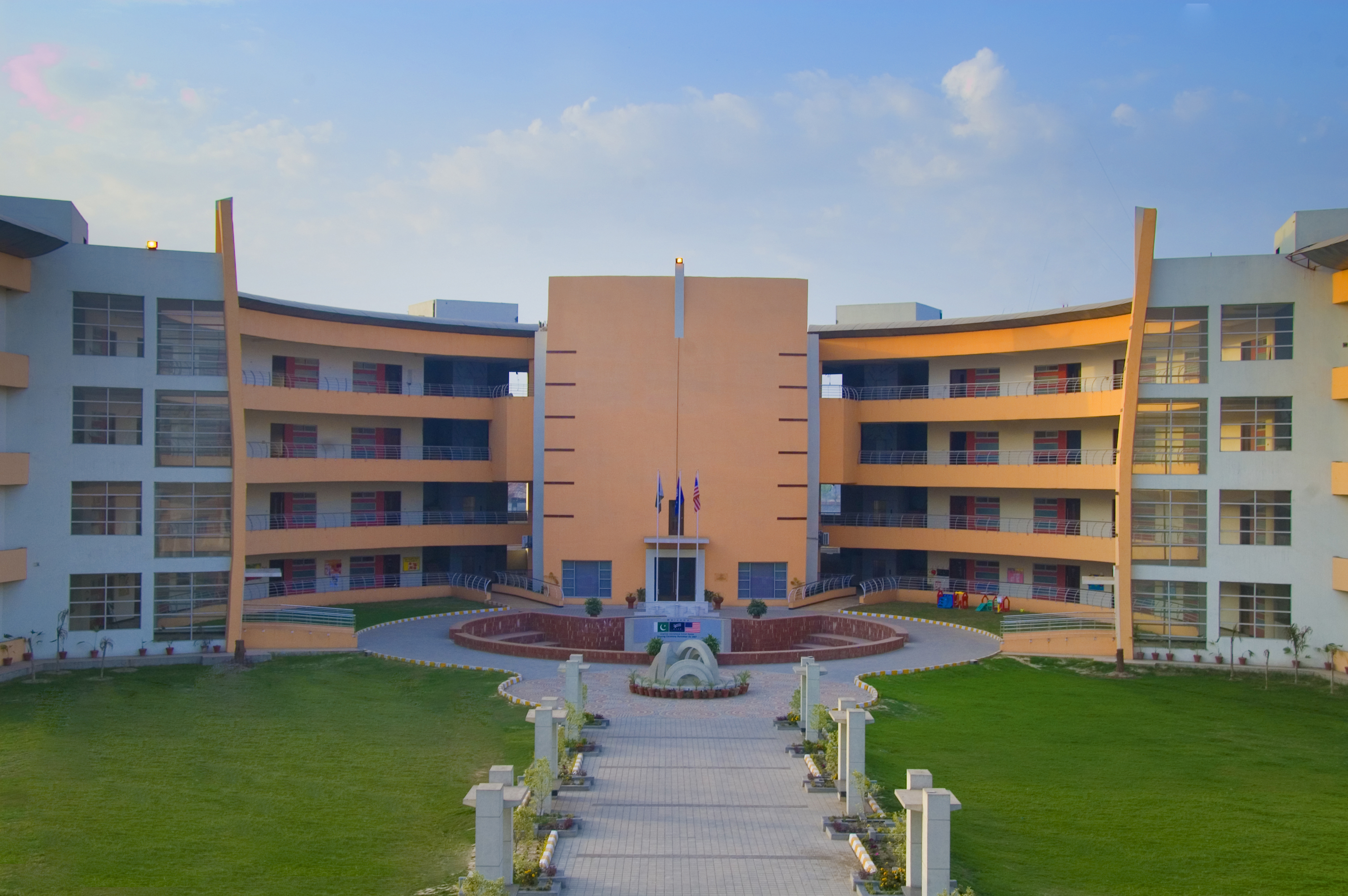 Main academic building on AISS campus